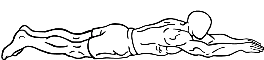 an exercise of lower back